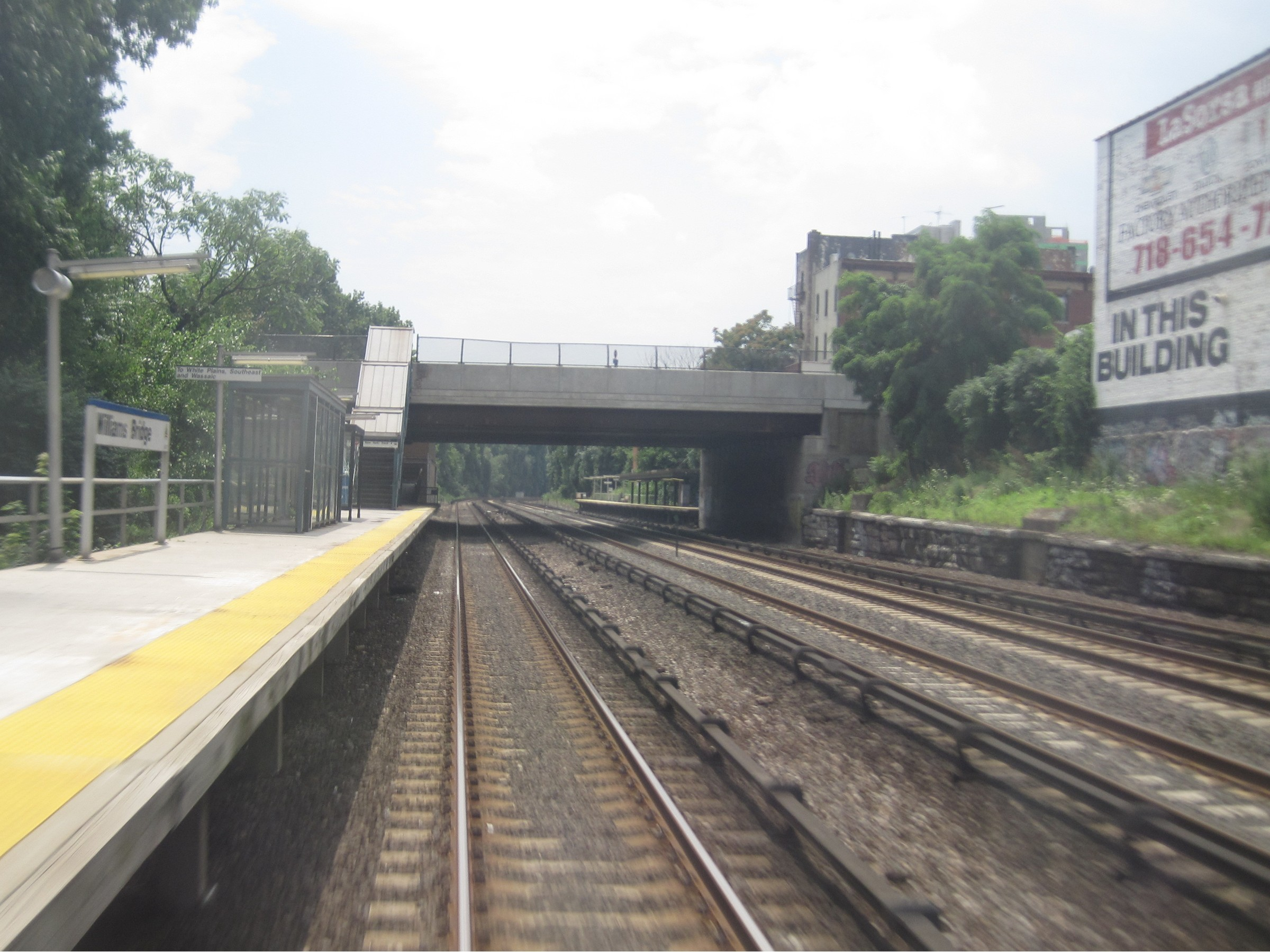 Williams Bridge rail station on Metro-North Harlem Line.